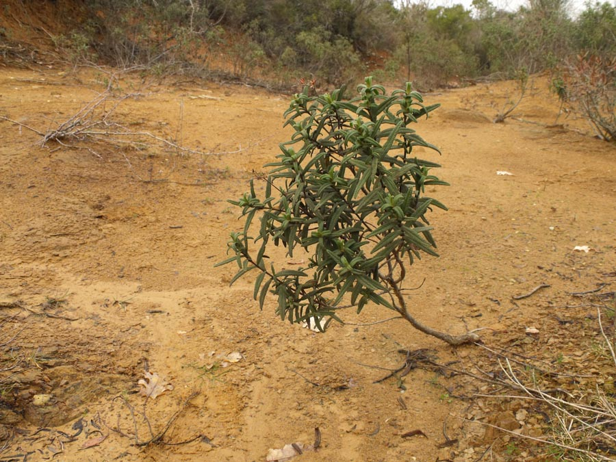 Cistus monspeliensis in disturbed land with very acidic red soil, in Maquis shrubland habitat. Located near Magliano in Toscana (GR).